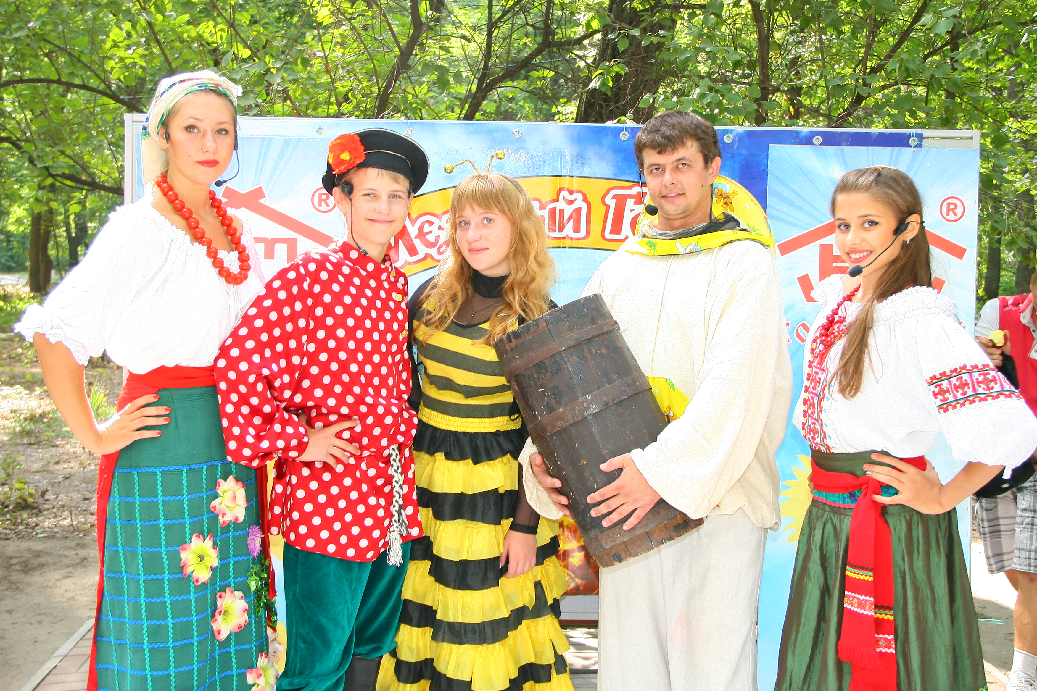 Medovo Festival